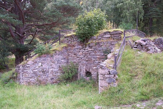 An old Lime Kiln at Loch an Eilein. Much of the soil in the Highlands is acidic and requires to be treated with lime. This was produced in stone kilns. Chalk was placed in the top section and heated by a fire in the lower section to produce the lime.